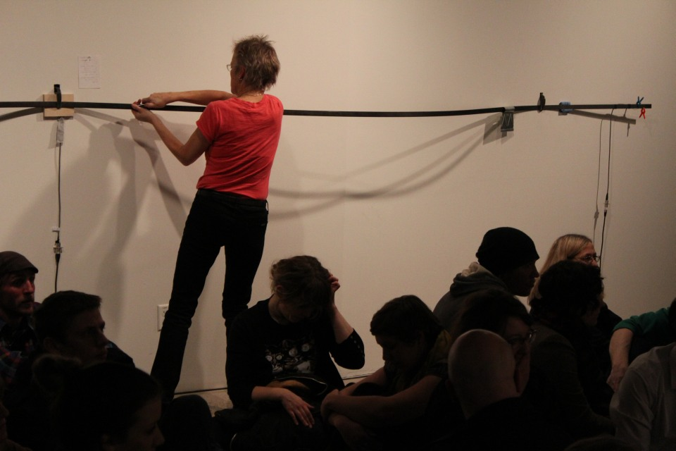 Ellen Moffat performing in her installation titled "Pick Up Put Down" at PAVED Arts in Saskatoon, SK on November 10, 2011.